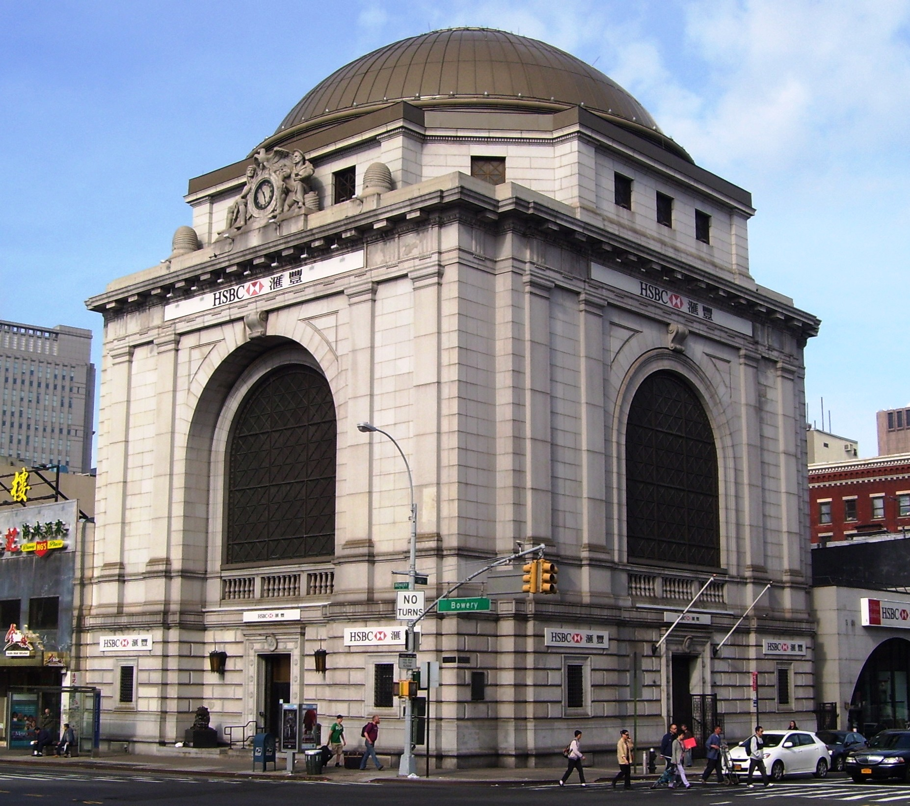 The Citizen's Savings Bank building at 58 Bowery on the corner of Canal Street in the Chinatown neighborhood of Manhattan, New York City was built in 1924 and was designed by Clarence W. Brazer. It is currently used by HSBC bank. (Source: AIA Guide to NYC (4th. ed.)) It was designated a New York City landmark in 2011.